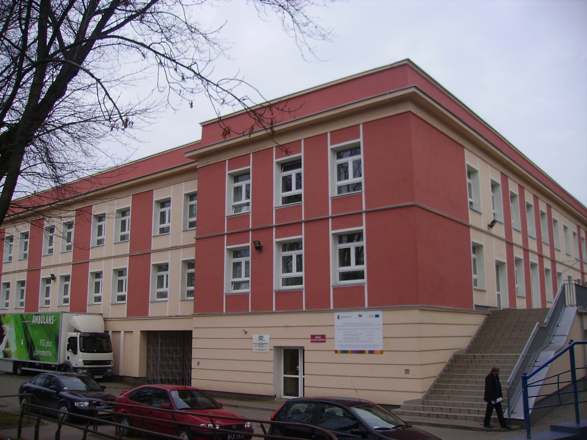 Białystok, 18 Warszawska street. Specialized Health Care of Tuberculosis and Lung Diseases.